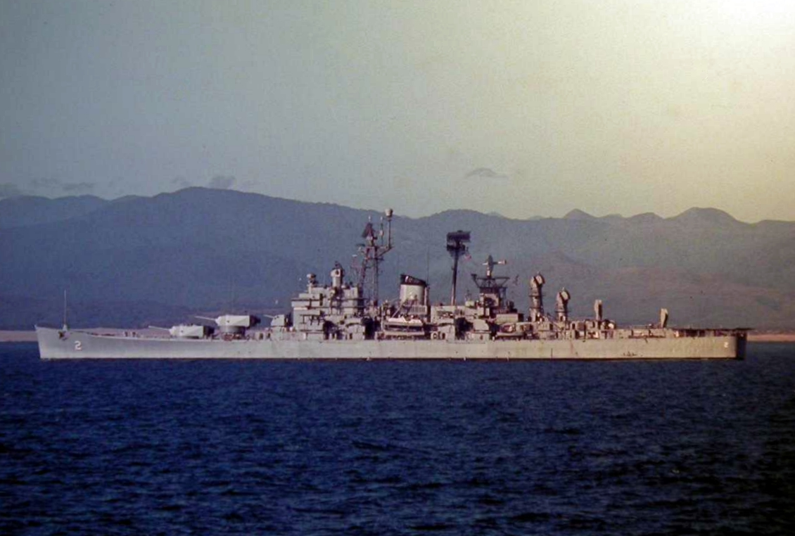 The U.S. Navy guided missile cruiser USS Canberra (CAG-2) off the coast of South Vietnam, circa 1966.